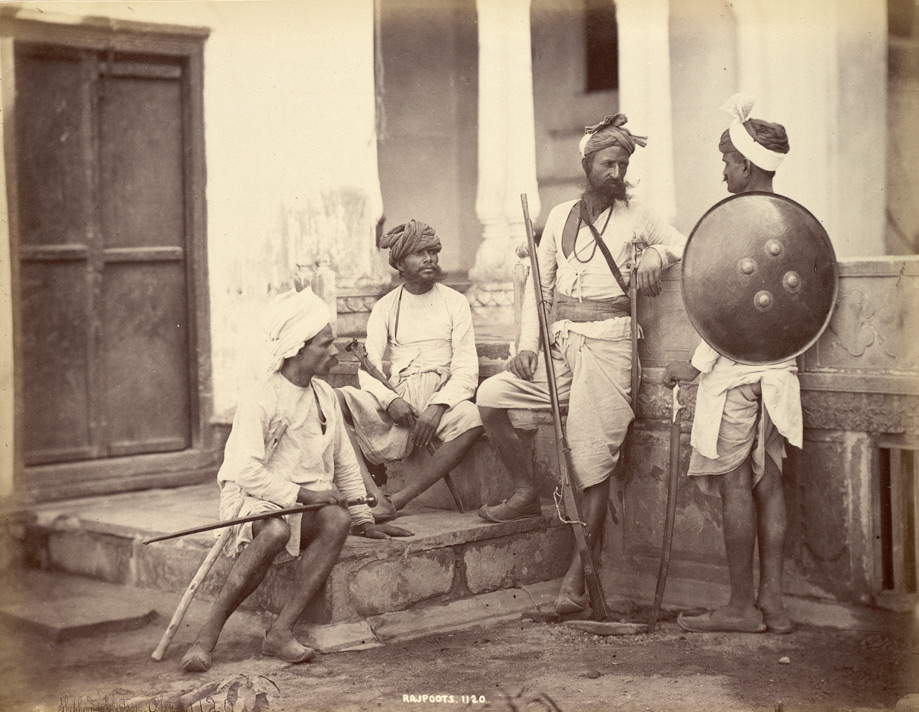 "Chohan Rajpoots, Delhi" - This photograph is part of a series taken by the firm of Shepherd and Robertson for a book entitled 'The People of India' by Forbes Watson, published in 1868. The Rajpoots were the highest secular Hindu caste. The Chohans, descendents of warrior princes, claimed the highest position among the Rajpoot clans. [The author of 'The People of India',] Forbes Watson described them as 'six feet and upwards in height, and stout in proportion, with strikingly handsome features, fair complexions and grey eyes'. The men are photographed in the shade to reduce the glare of the strong light reflected from the dazzling white buildings.